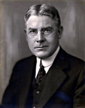 George R. Stobbs, US Representative from Massachusetts